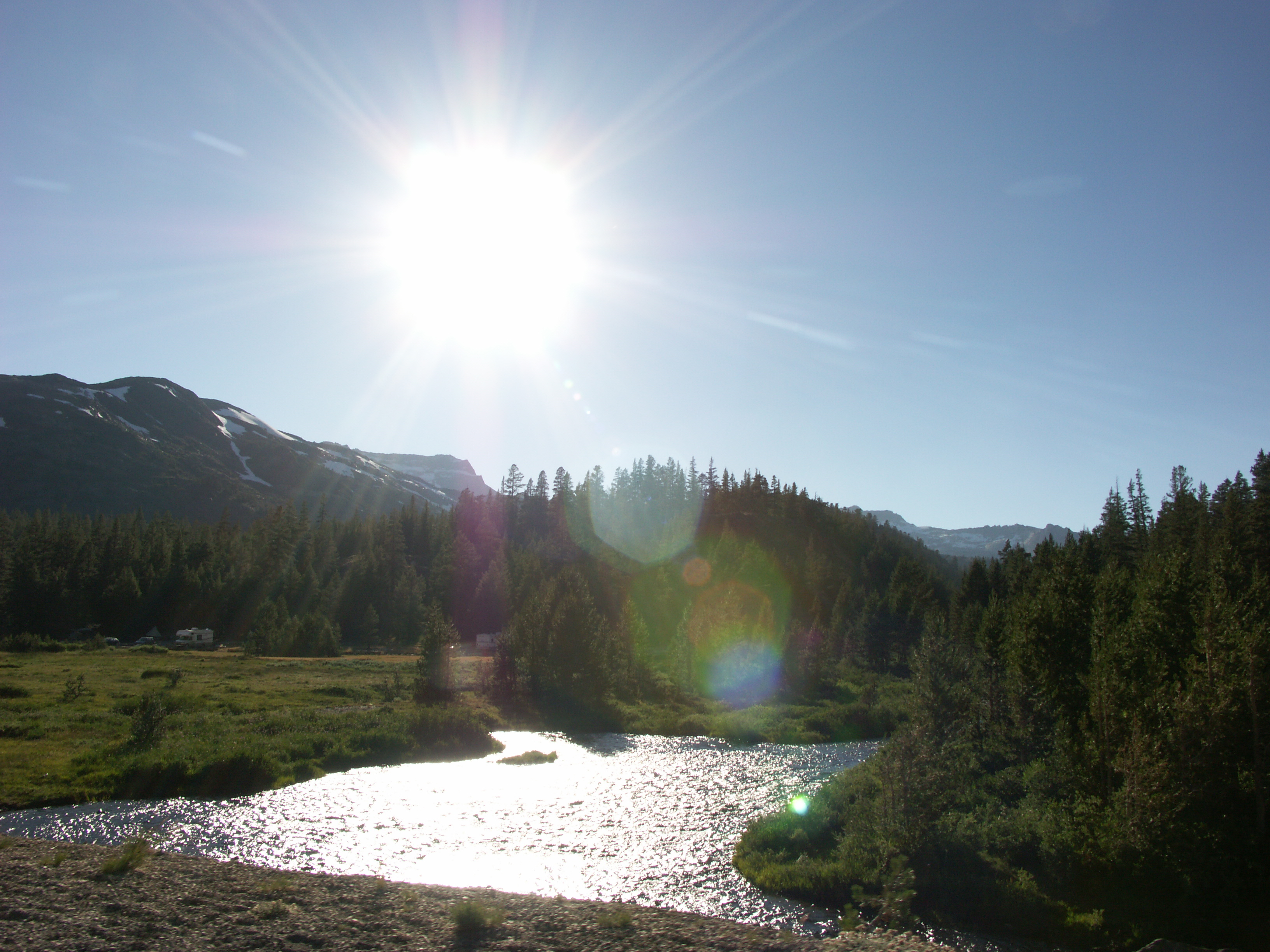 Lens Flare and river through Yosemite National Park.